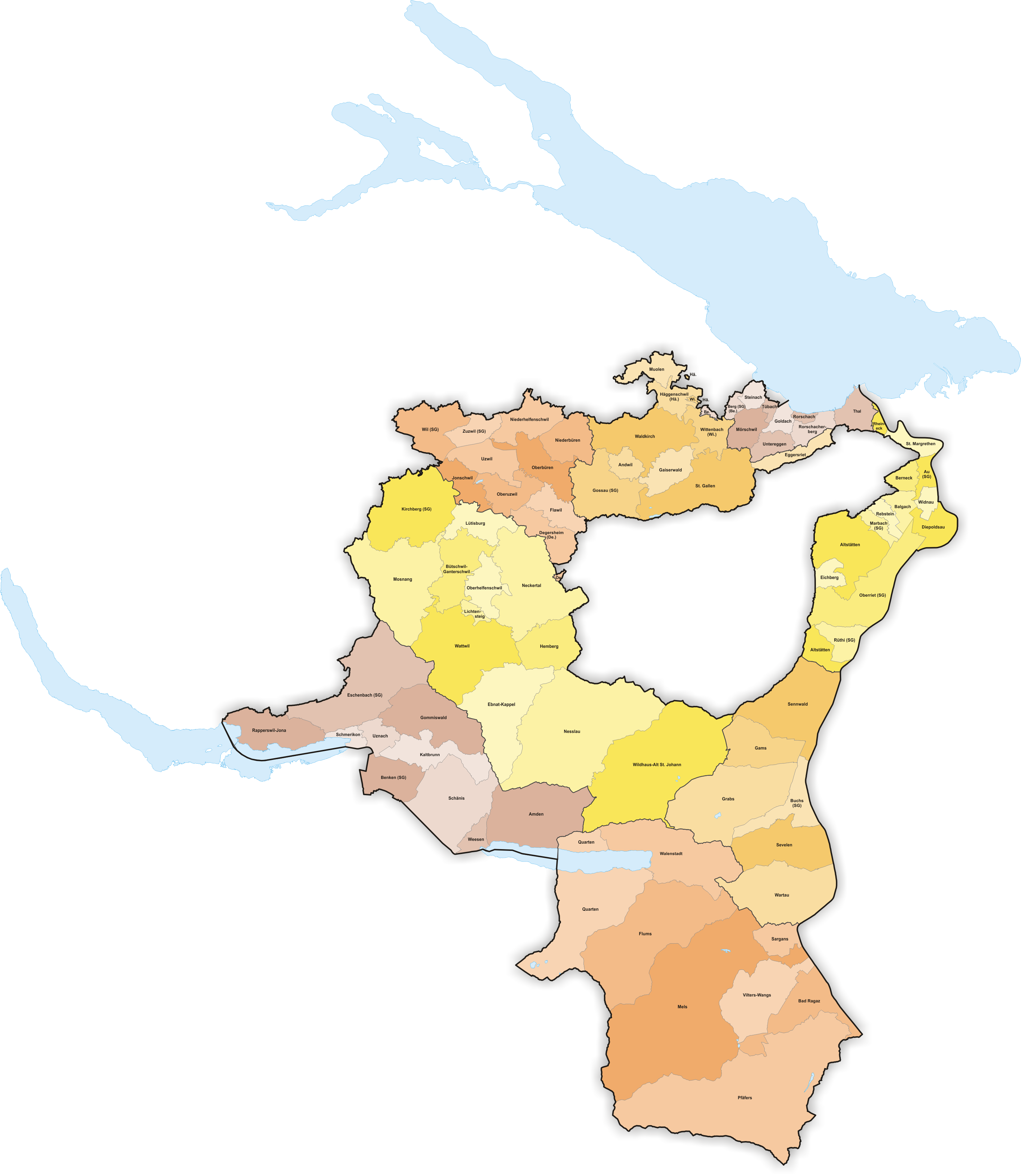 Municipalities in Canton St. Gallen